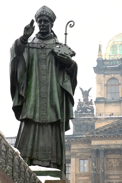 Adalbert of Prague. Part of Wenceslas Monument on the Wenceslas Square in Prague. National Museum in the background.